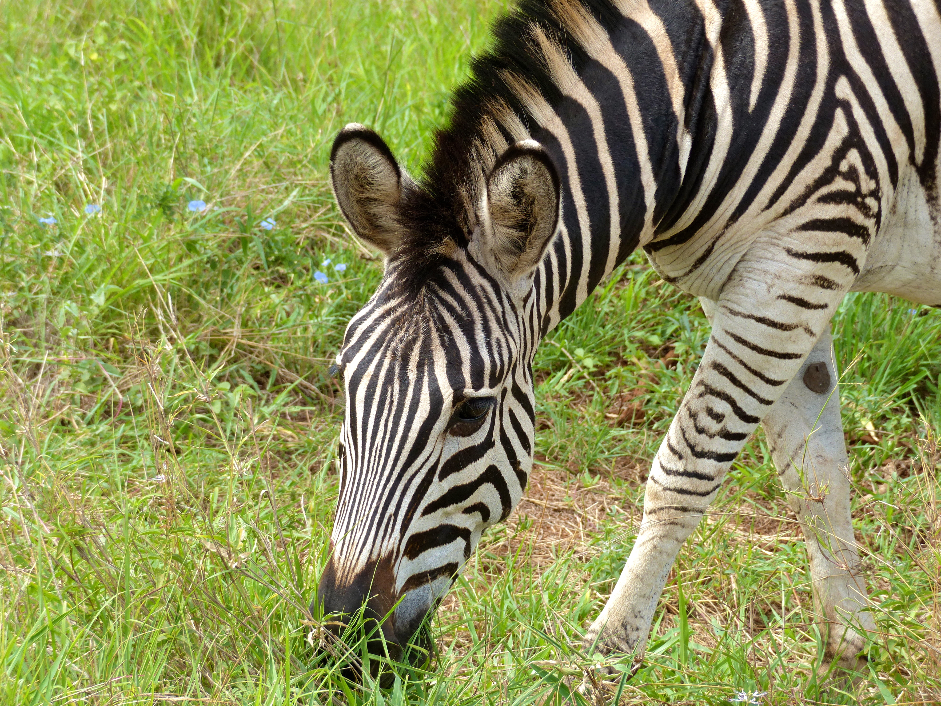 S28 Road North of Crocodile Bridge, Kruger NP, SOUTH AFRICA